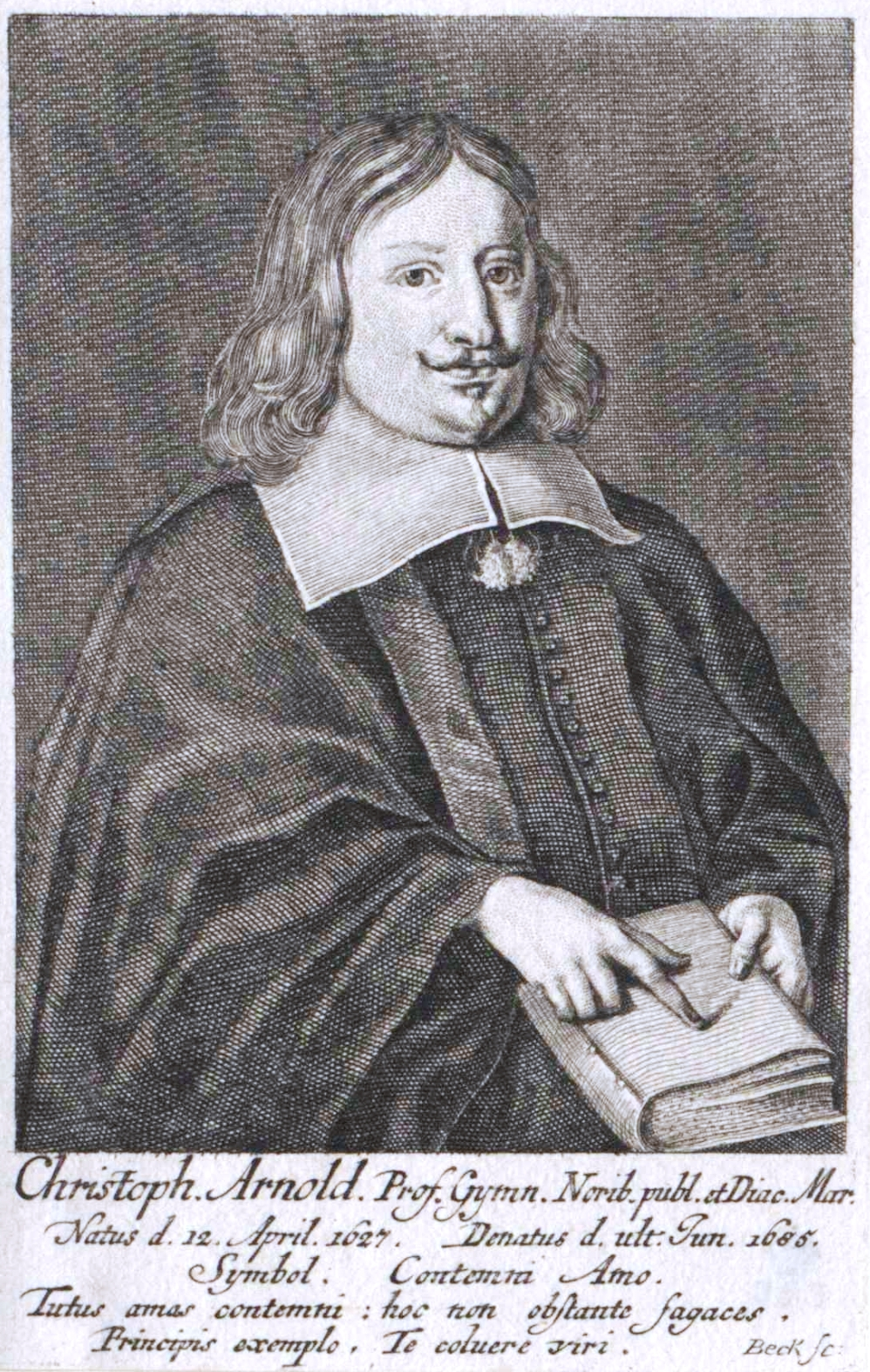 Christoph Arnold (1627–1685)